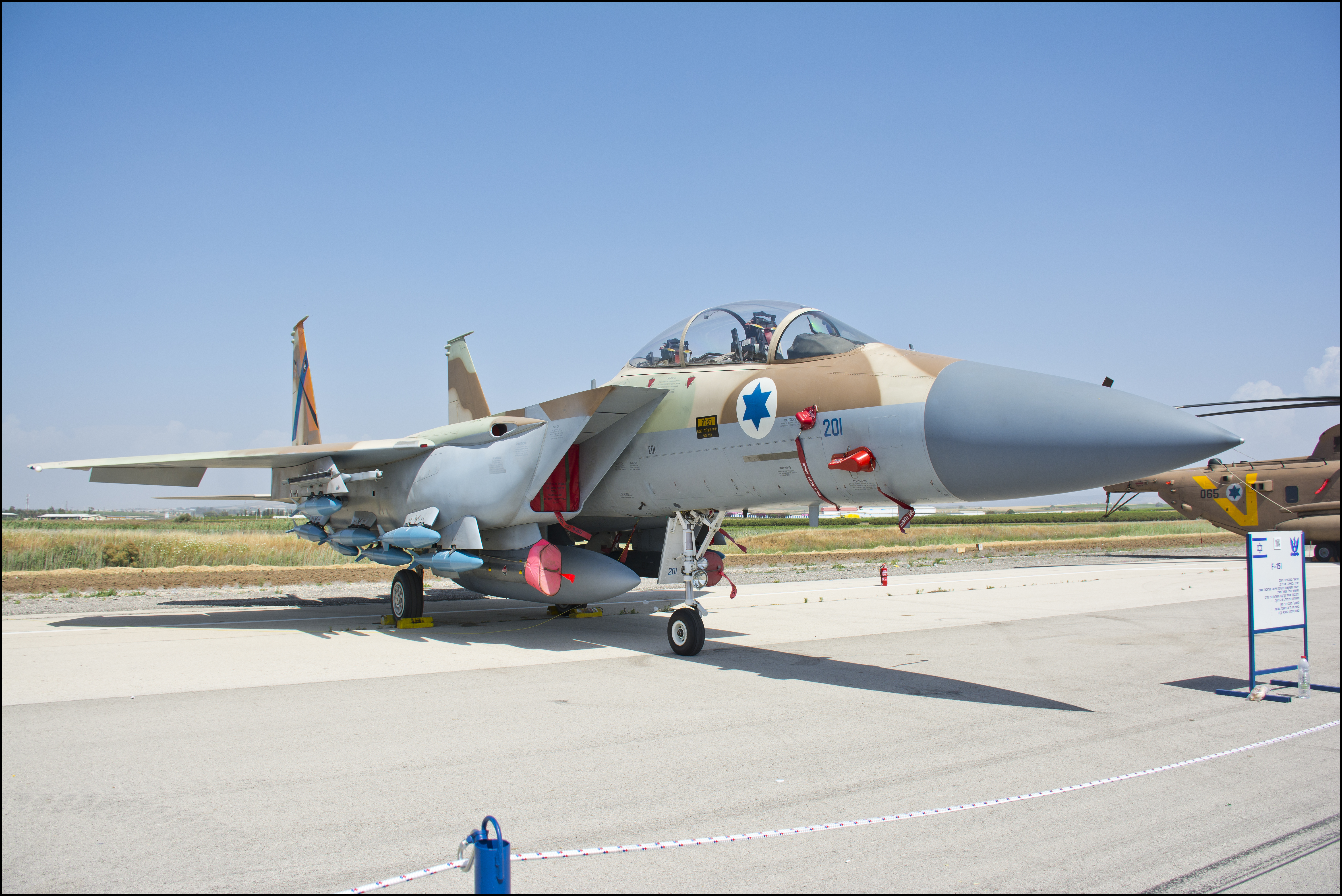 IAF F-15I Ra'am, Israeli Air Force, Independence Day 2017